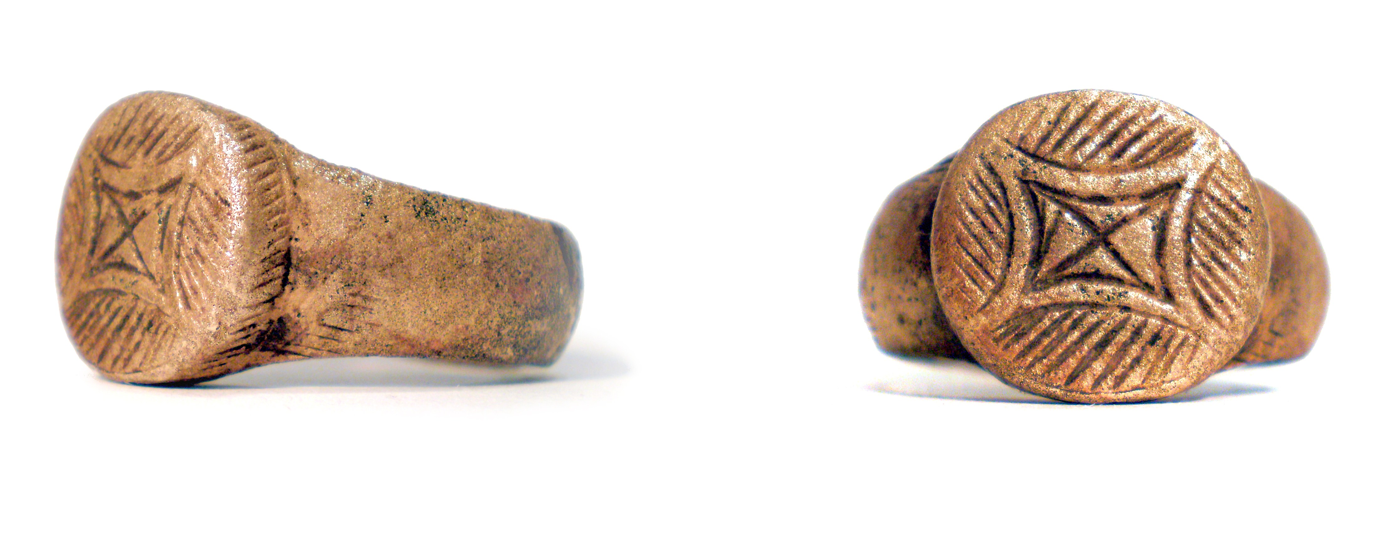 Roman ring found in Tuhovishta's territory in July 2010. Ring's age is estimated to be between 2000 and 1500 years.